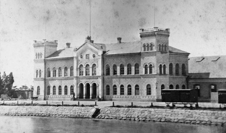 Centralstationen E 2 Foto: Okänd fotograf / Malmö Museer